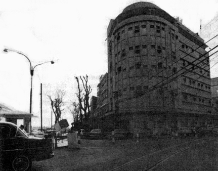 Photo of MACV HQ, Tan Son Nhut, Saigon from p 49 of Vietnam Studies Command and Control 1950-1969 by Major General George S. Eckhardt, Department of the Army, Library of Congress Catalog Card Number 72-600186